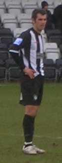 Alex Lawless playing for Forest Green Rovers against Oxford United at The New Lawn, Nailsworth on 7 March 2009